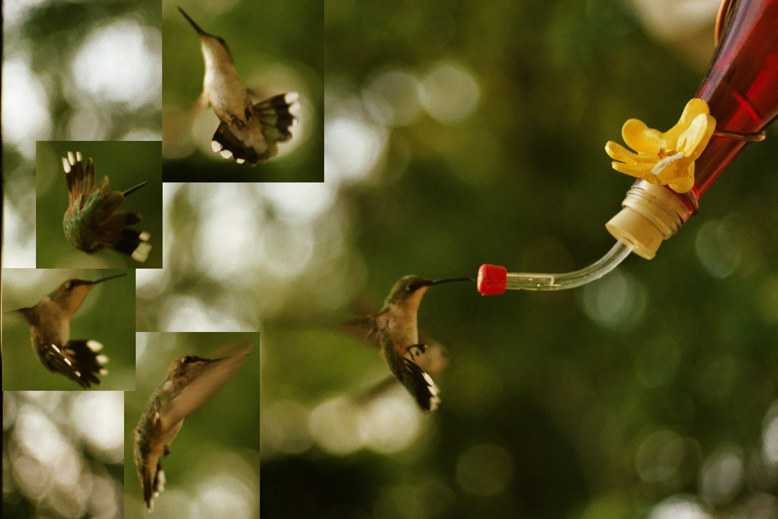 Composite image of various defensive and evasive moves by a female ruby-throated hummingbird (Archilochus colubris) at a man-made feeder near Rossville, Tennessee.